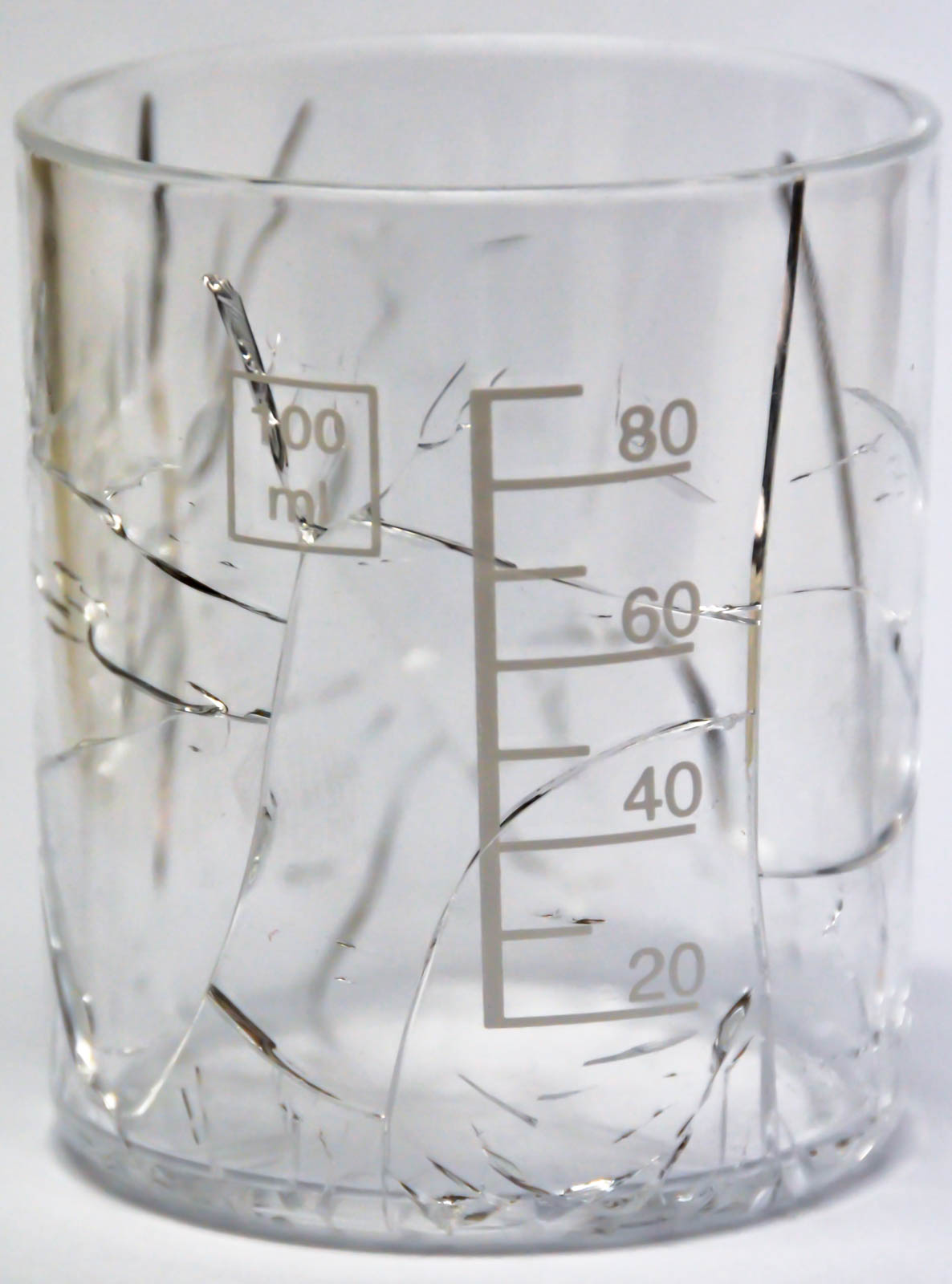 PMMA measuring cup cracked under the influence of ethanol ("solvent crazing")